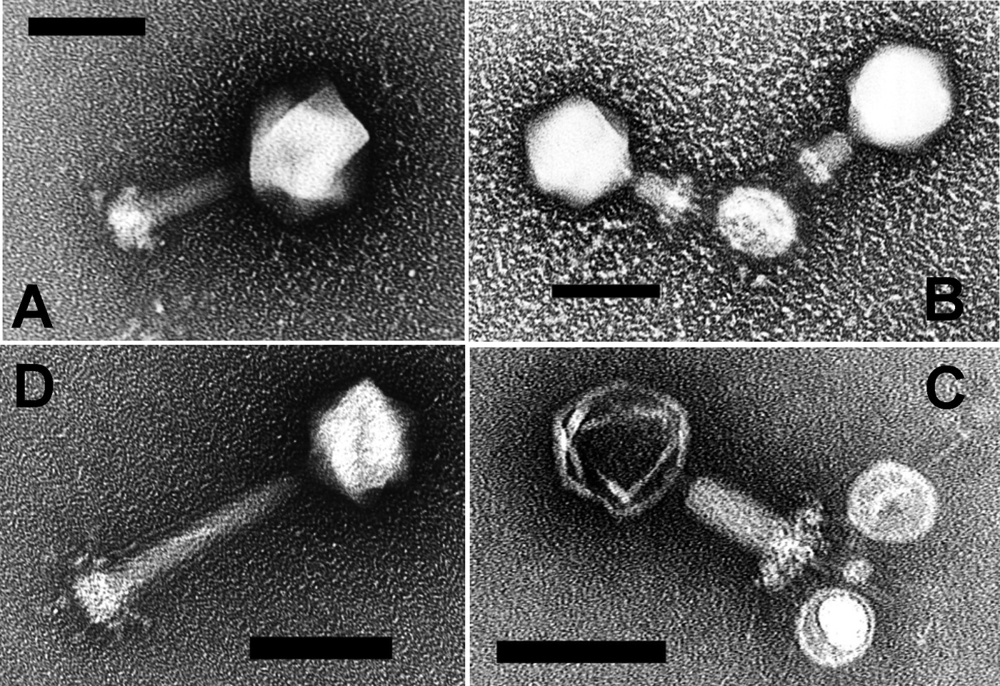 Electron Micrograph of Negative-Stained Prochlorococcus Myoviruses P-SSM2 and P-SSM4. Myovirus P-SSM2 with (A) non-contracted tail and (B) contracted tail, and myovirus P-SSM4 with (C) contracted tail and (D) non-contracted tail. Note the T4-like capsid, baseplate, and tail structure in both myoviruses. Scale bars indicate 100 nm.